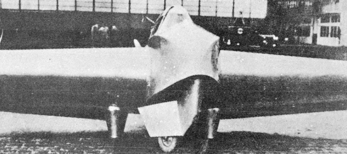 Lippisch Delta 1 photo from NACA aircraft Circular No.159